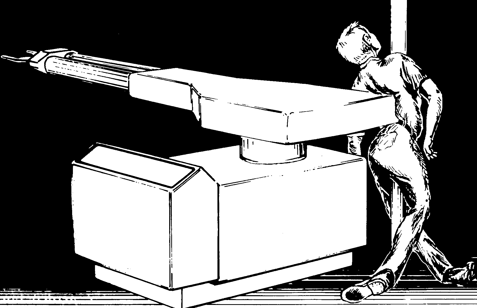 Artist's depiction of a fatal accident involving an industrial robot. From the source: "On July 21, 1984, a thirty-four-year-old male operator of an automated die-cast system went into cardiorespiratory arrest and died after being pinned between the back end of an industrial robot and a steel safety pole. Despite training in the robotics course, instructions on the job, and warnings by fellow workers to avoid this dangerous practice, the victim apparently climbed over, through, or around a safety rail which surrounded two sides of the robot's work envelope. This preventable fatality demonstrates a growing problem of the failure of workers to recognize all the hazards associated with robots."